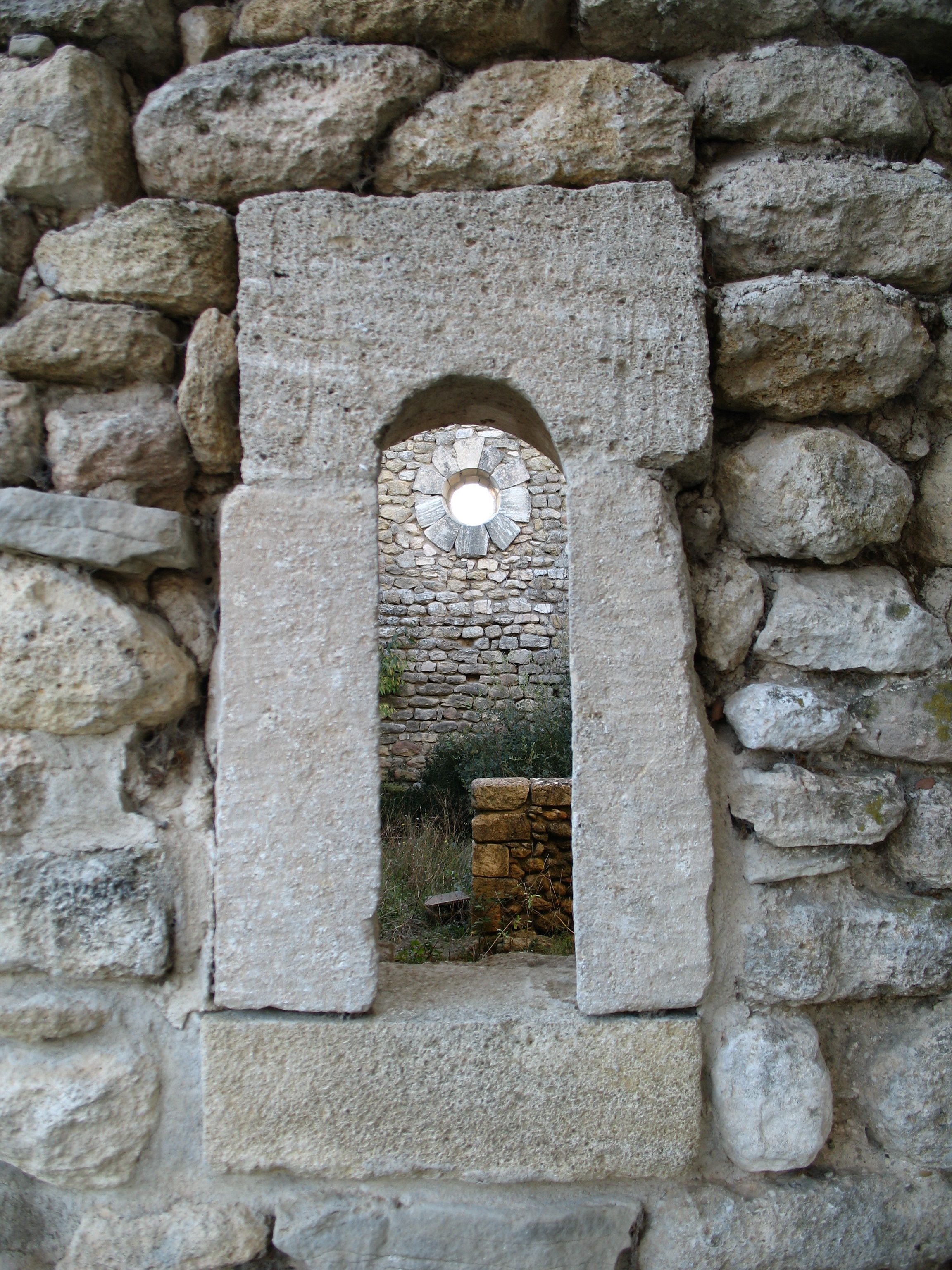 France - Provence - Bouches-du-Rhône - Chapel Saint-Jean in Alleins